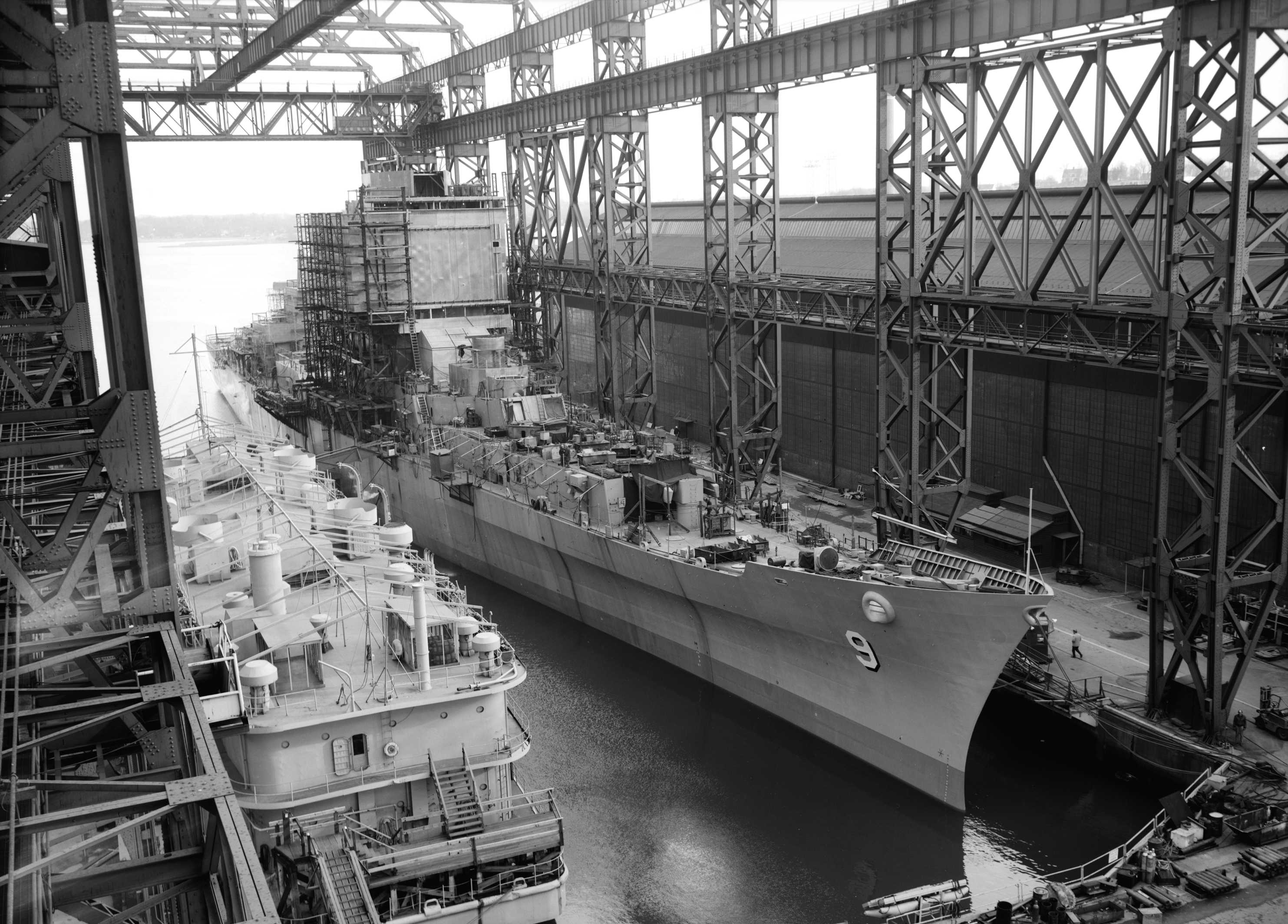 The U.S. Navy guided missile cruiser USS Long Beach (CGN-9) fitting out out The Bethlehem Steel Fore River Shipyard, Quincy, Massachusetts (USA), in January 1961. Long Beach was commissioned as the world's first nuclear-powered surface ship on 9 September 1961.